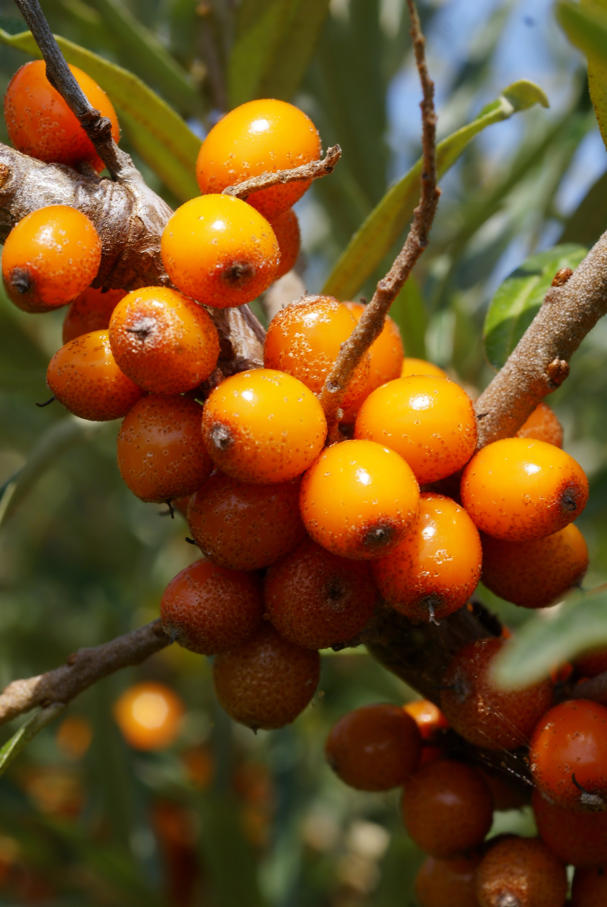 Common Sea-buckthorn berries at Vosseslag, De Haan, Belgium